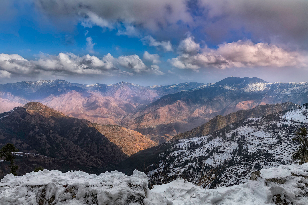 Dhanaulti